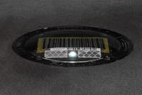 Embedded_type_solar_road_stud